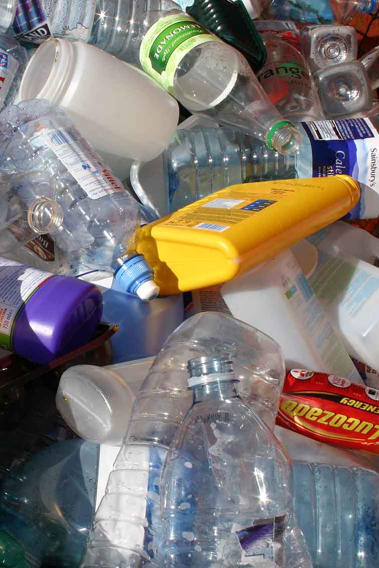 Plastic For Recycling